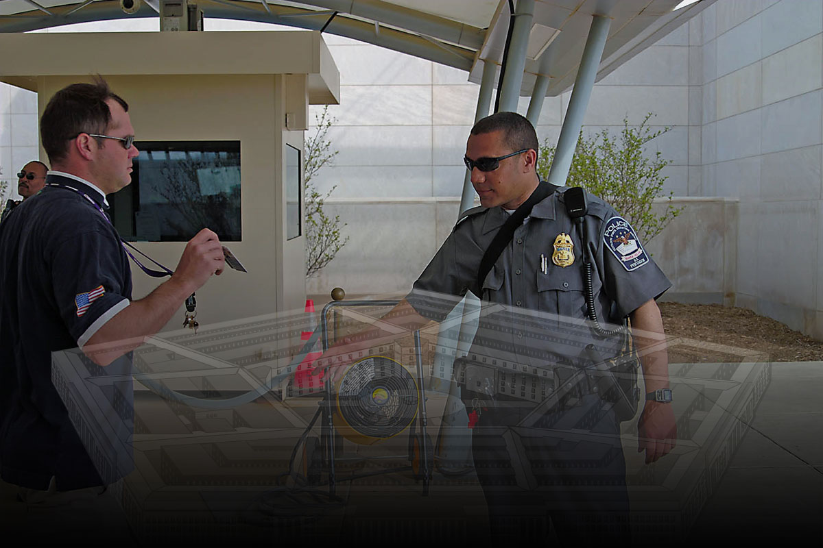 Pentagon Force Protection Agency policeman checks a man's ID card